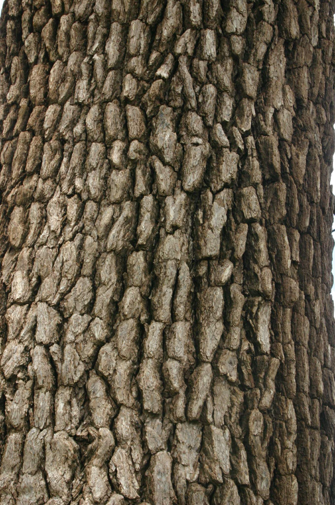 Bark of Combretum imberbe - Leadwood - next road from Potgietersrust to Naboomspruit, South Africa